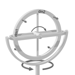 Turnable gimbal holding gyro. Labelled to explain coriolisforces as reason of momentum generated by applying a momentum to the gyro. Suitable to explain precession as well as self-actuating orientation to north of a gyrocompass. From inside to outside there are three axes of rotation: the hub of the wheel, the gimbal axis and the vertical pivot. To distinguish between the two horizontal axes, rotation around the wheel hub will be called 'rolling,' and rotation around the gimbal axis will be called 'pitching.' First, imagine that the device is rotating around the pivot axis. Then some rotation around the wheelhub is added. Imagine the gimbal axis to be locked, so that the wheel cannot pitch. The gimbal axis has sensors, that measure whether there is a torque around the gimbal axis. The device is spinning around the vertical axis, and then some roll is added. In the picture, a section of the wheel has been named 'dm1'. When the rolling starts, section dm1 is at the perimeter of the spinning motion. Section dm1 has a lot of velocity and as it is forced closer to the center of rotation, it tends to move in the direction of the top-left arrow in the diagram (shown at 45o in the direction of rolling). Section dm2 of the wheel starts out at the center of rotation, and thus initially has zero velocity. A force would be required to increase section dm2's velocity to the velocity at the perimeter of the pivot axis' plane. If that force is not provided then section dm2's inertia will make it move in the direction of the top-right arrow. Note that both arrows point in the same direction. The same reasoning applies for the bottom half of the wheel, but there the arrows point in the opposite direction to that of the top arrows. Combined over the entire wheel, there is a torque around the gimbal axis when some rolling is added to rotation around a vertical axis. It is important to note that the torque arises without any delay; the response is instantaneous.